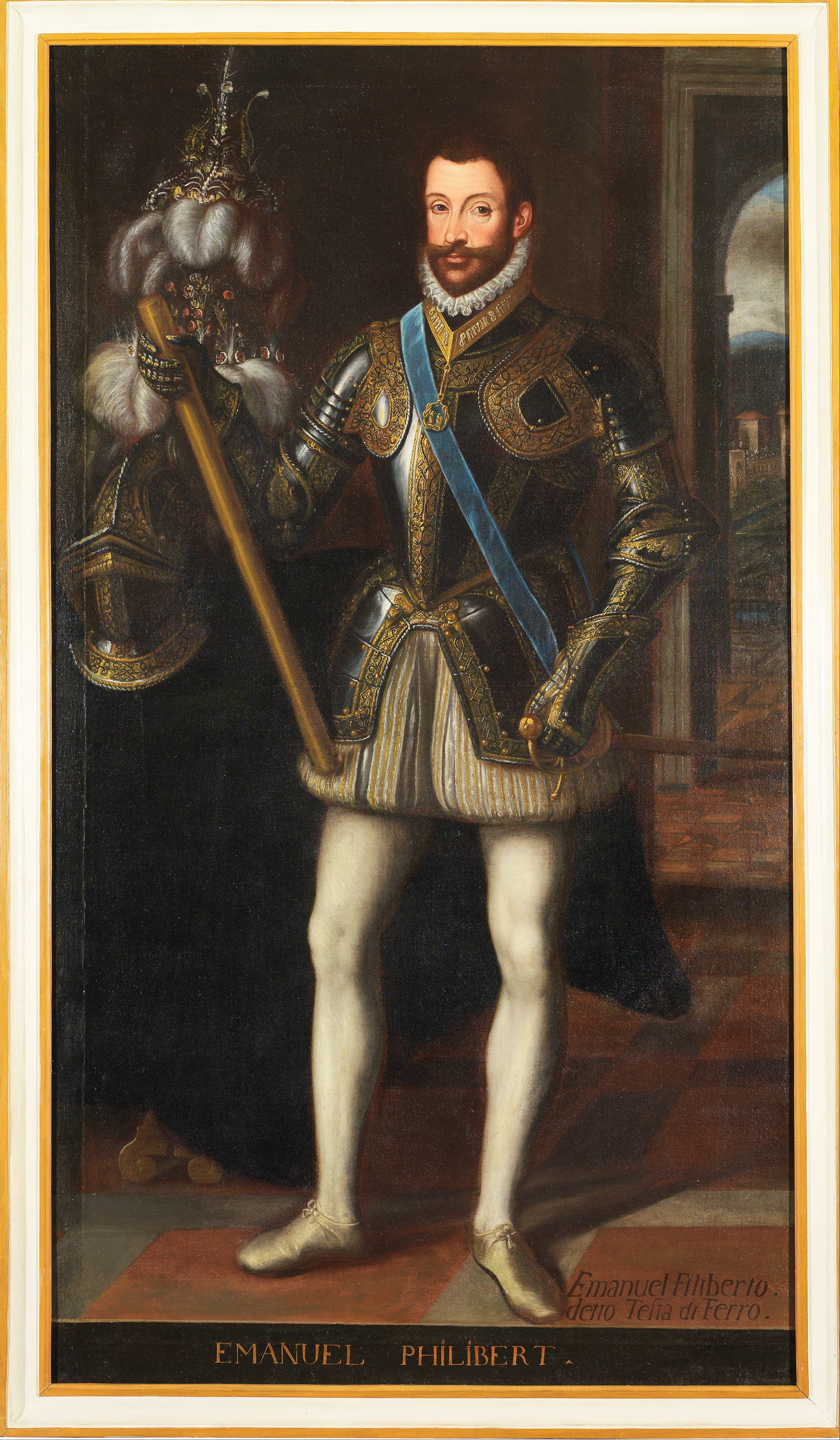 portait of Emanuele Filiberto